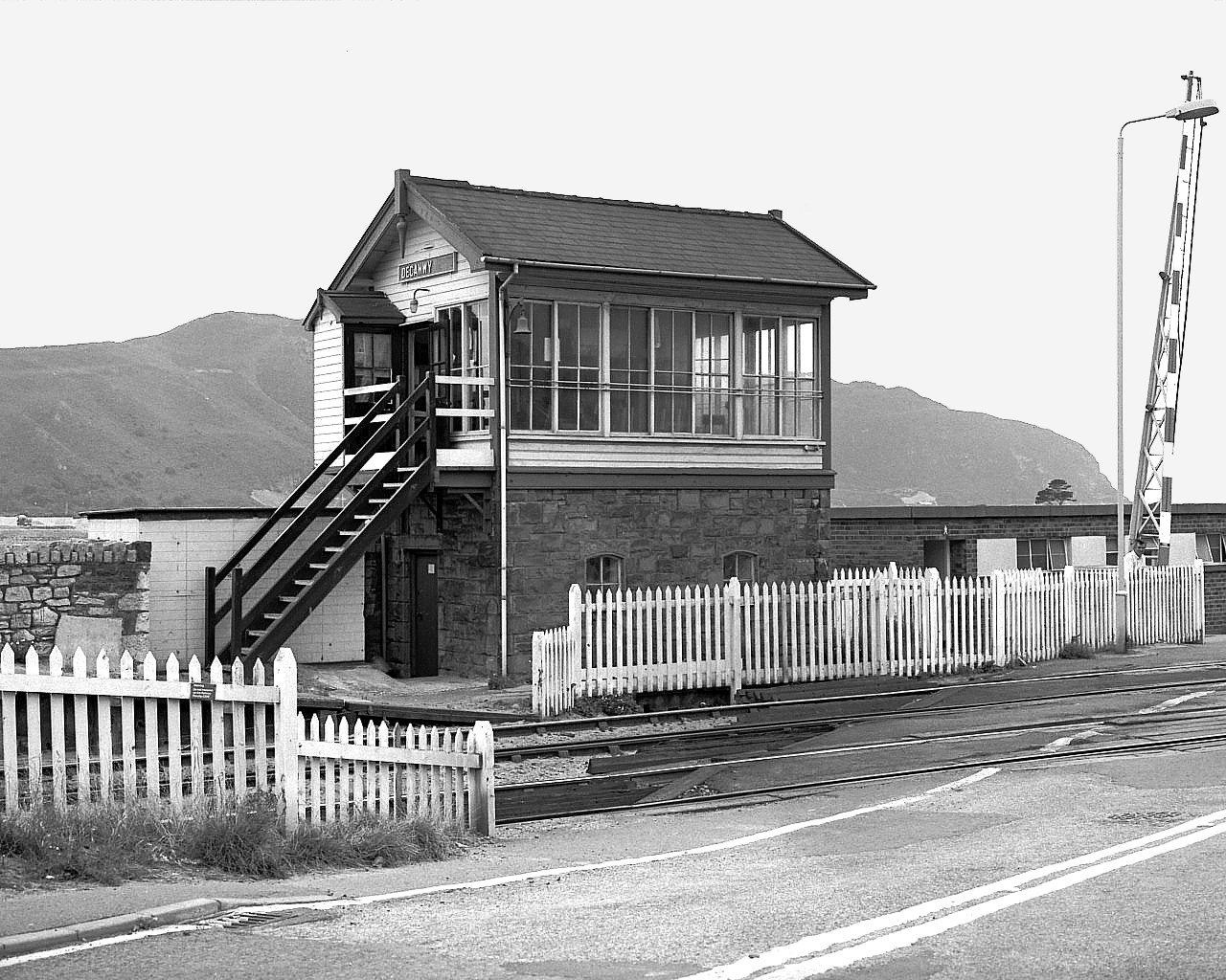 Deganwy signal box located at the north end of the Down (Llandudno bound) platform by Marine Crescent. Thursday 20th August 1987 Deganwy No2 signal box was a London and North Western Railway Type 5 design opened in 1914 fitted with a 18 lever London and North Western Railway Tappet. The nameboard is a London Midland and Scottish Railway post-1935 design with the letters No2 removed after the box was renamed Deganwy on 4th June 1967 when Deganwy No1 signal box closed Note the platform bell and that the tops of all three finials have been removed